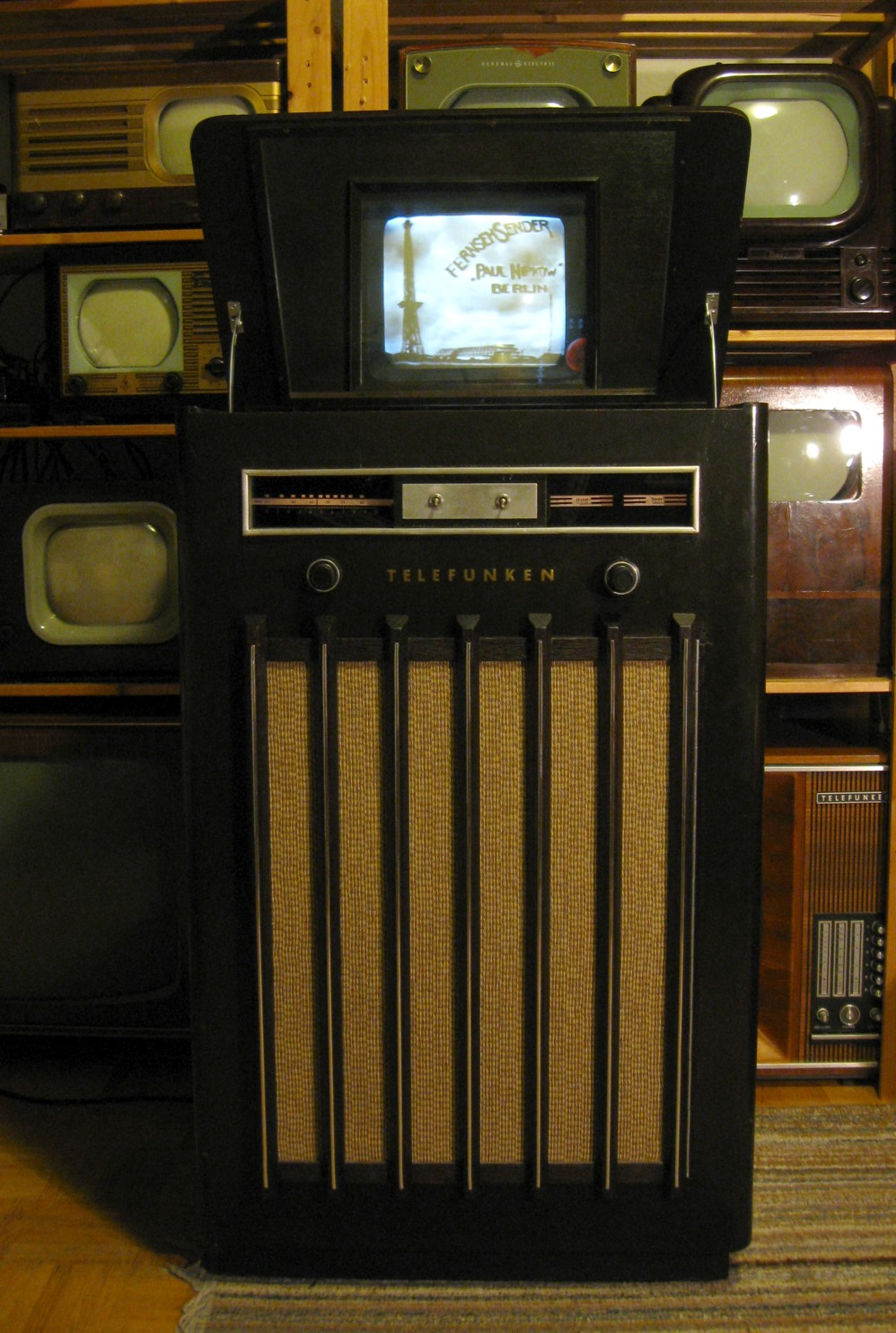 German mirror television made by AEG/Telefunken, from 1937. The cathode ray tube (CRT) which produces the image is in the cabinet and is viewed in the mirror, which can be folded down when the set is not in use. The correct model name mayTelefunken FE V (1936/37)[1] References ↑ a b Telefunken, Early Electronic TV Gallery, Early Television Foundation.